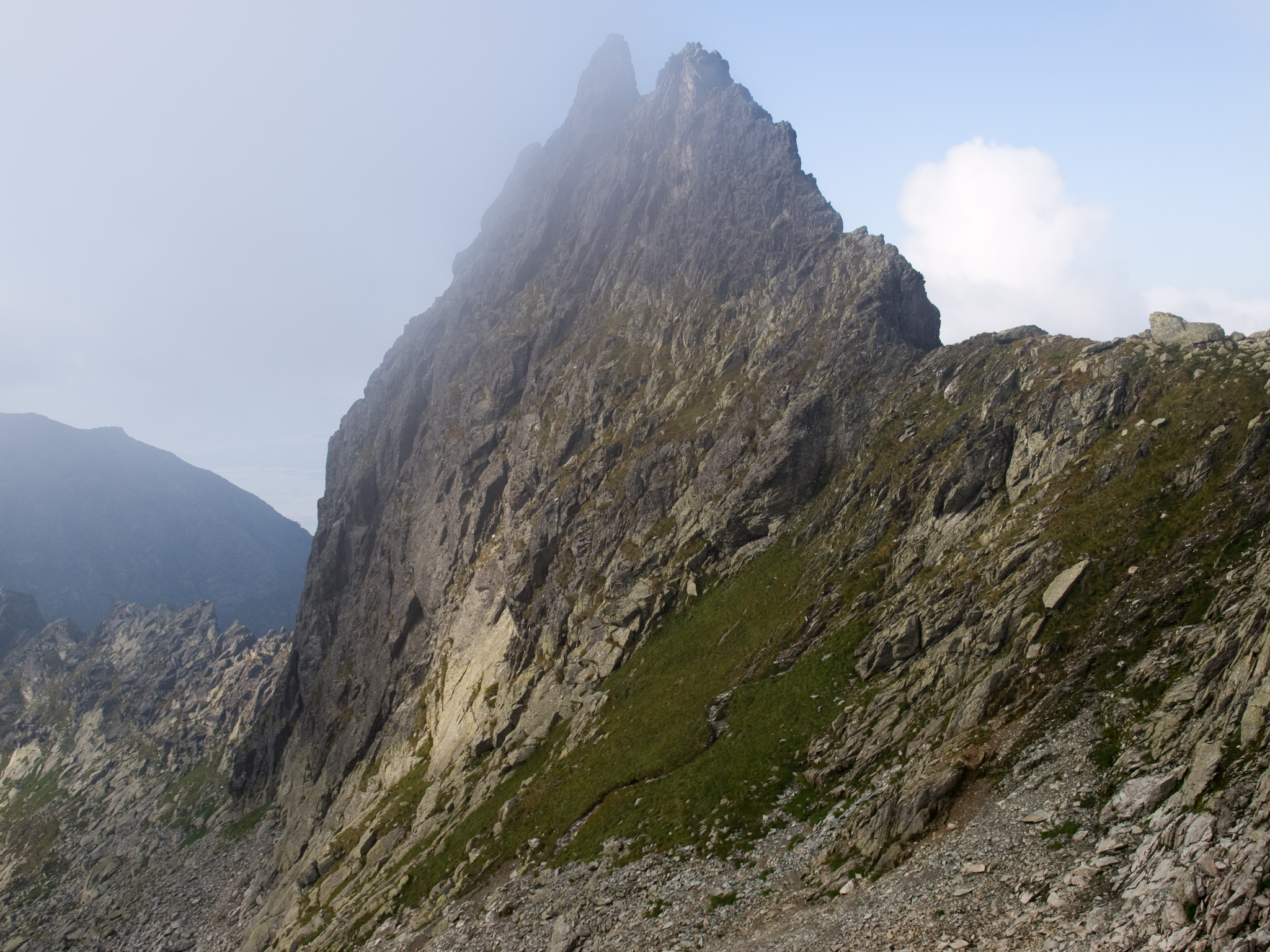 Dračia hlava